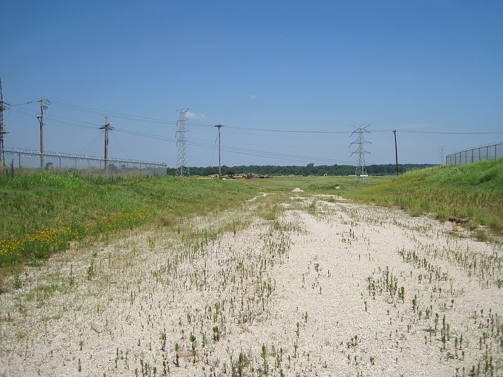 Westside Memphis, Tennessee. Old Randolph Road at Klinke Avenue. A fragment of a historic mail route between Memphis and Randolph, Tennessee. Destroyed in 2010.